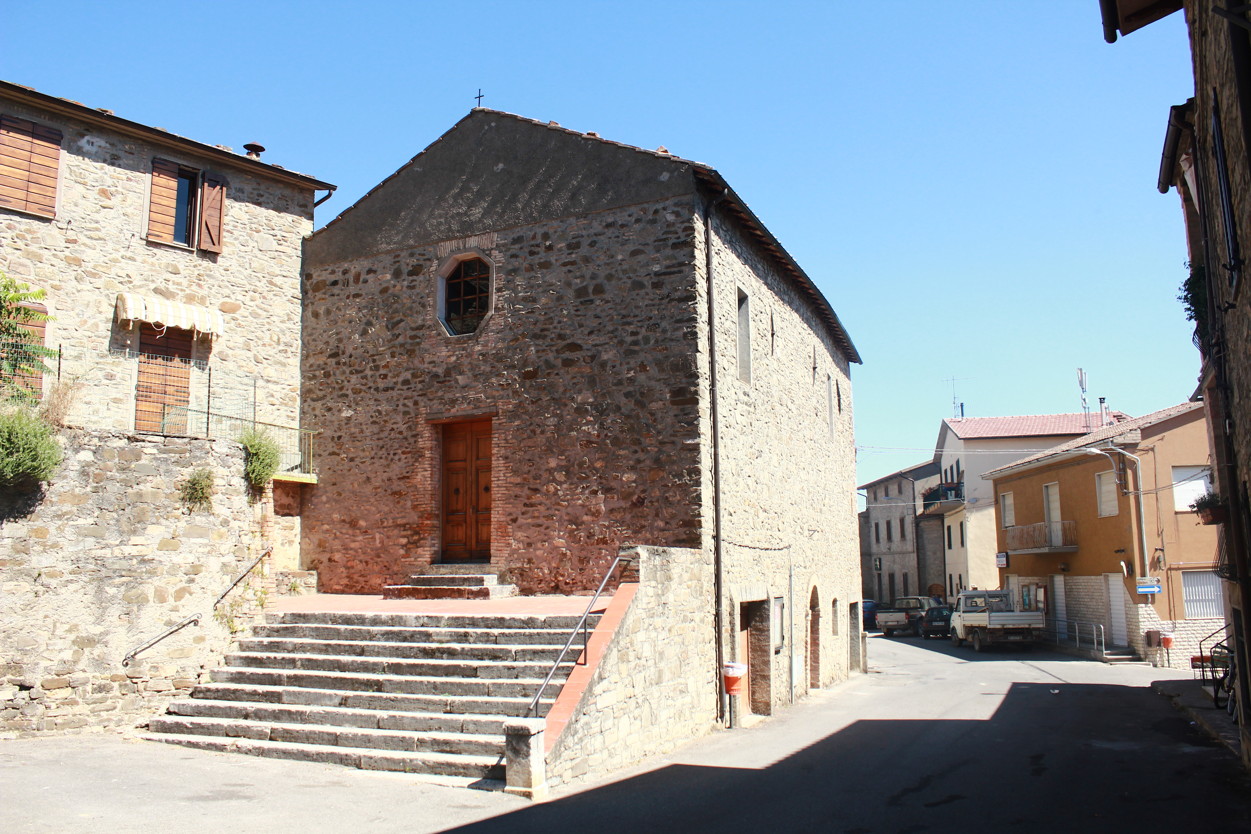 Montenero d'Orcia, Castel del Piano, Grosseto